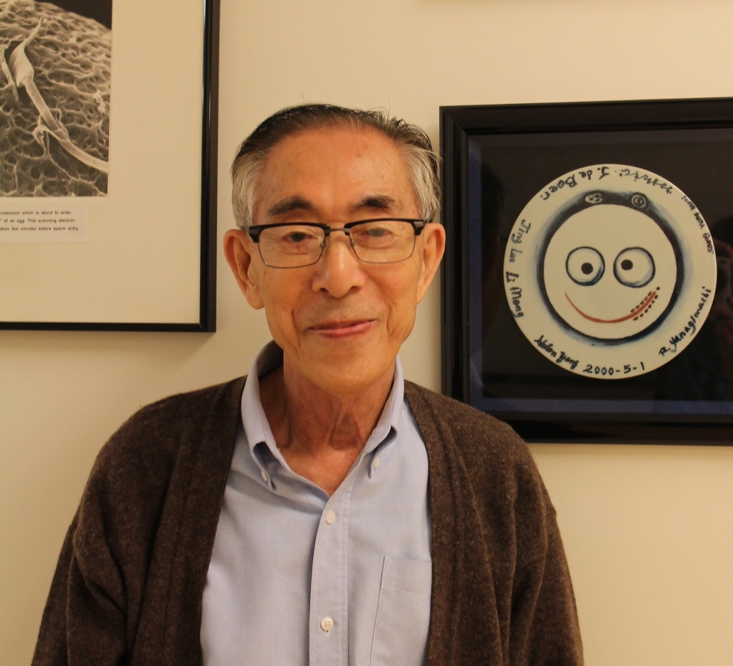 Yanagimachi 2014 IBR Picture